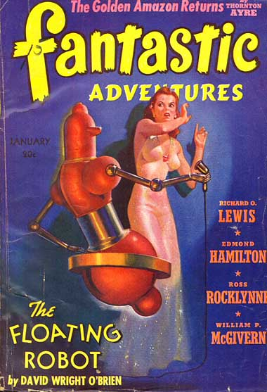 Cover of January 1941 issue of Fantastic Adventures. Artist is Harold W. McCauley. Copyright was either McCauley, or more likely Ziff-Davis, who published the magazine.